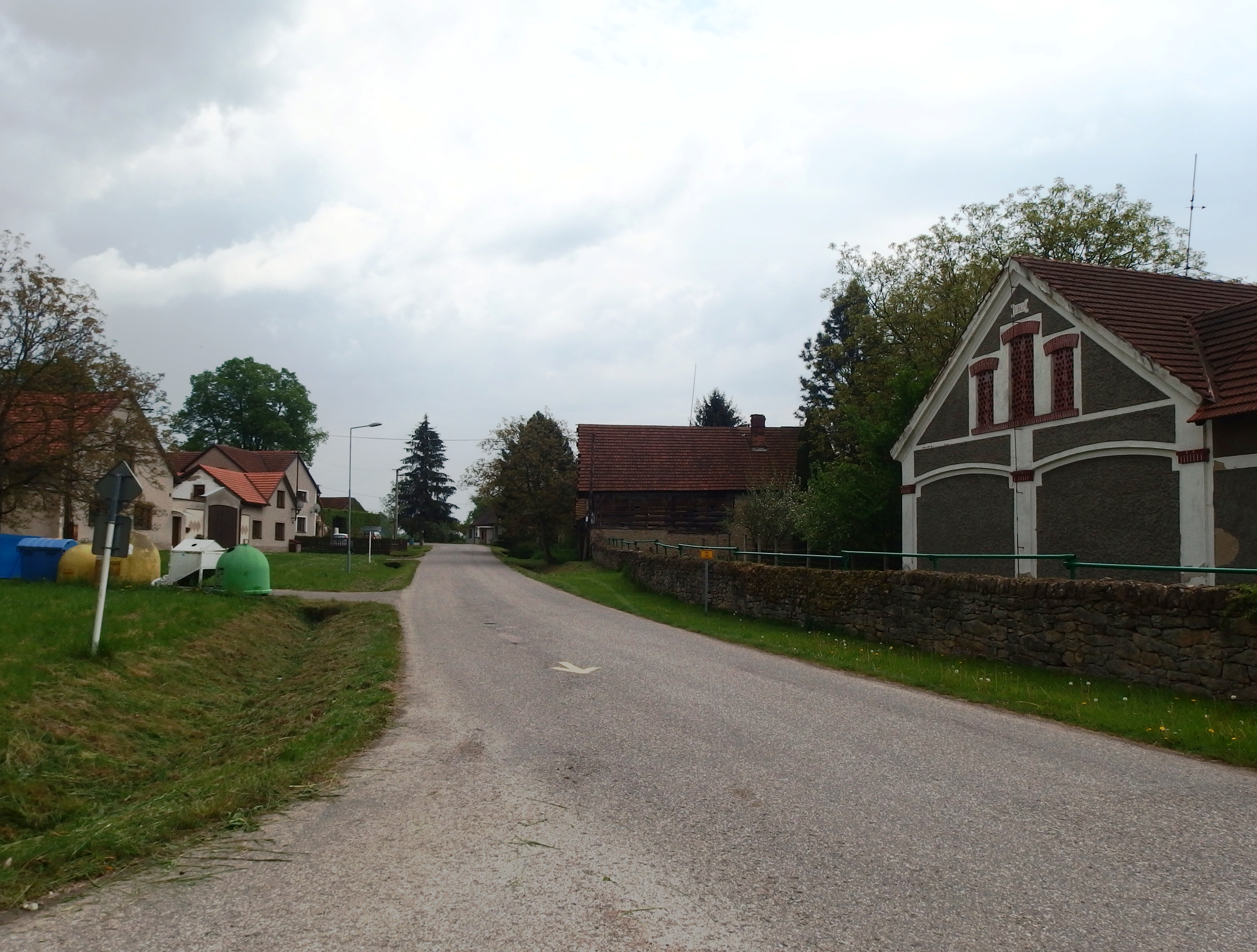 České Heřmanice, Ústí nad Orlicí District, Czech Republic. Part Chotěšiny.